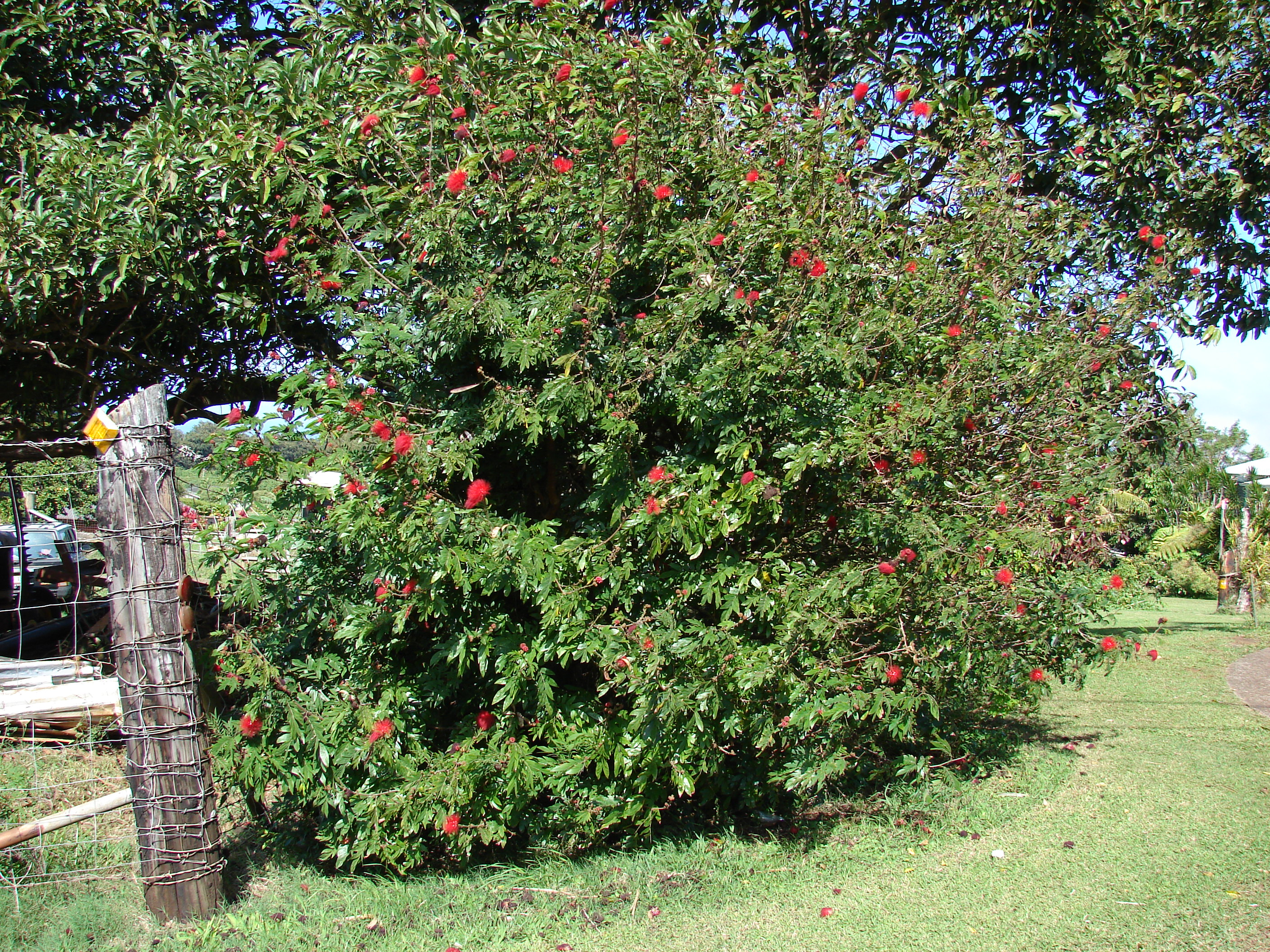 Calliandra haematocephala (habit). Location: Maui, Haiku